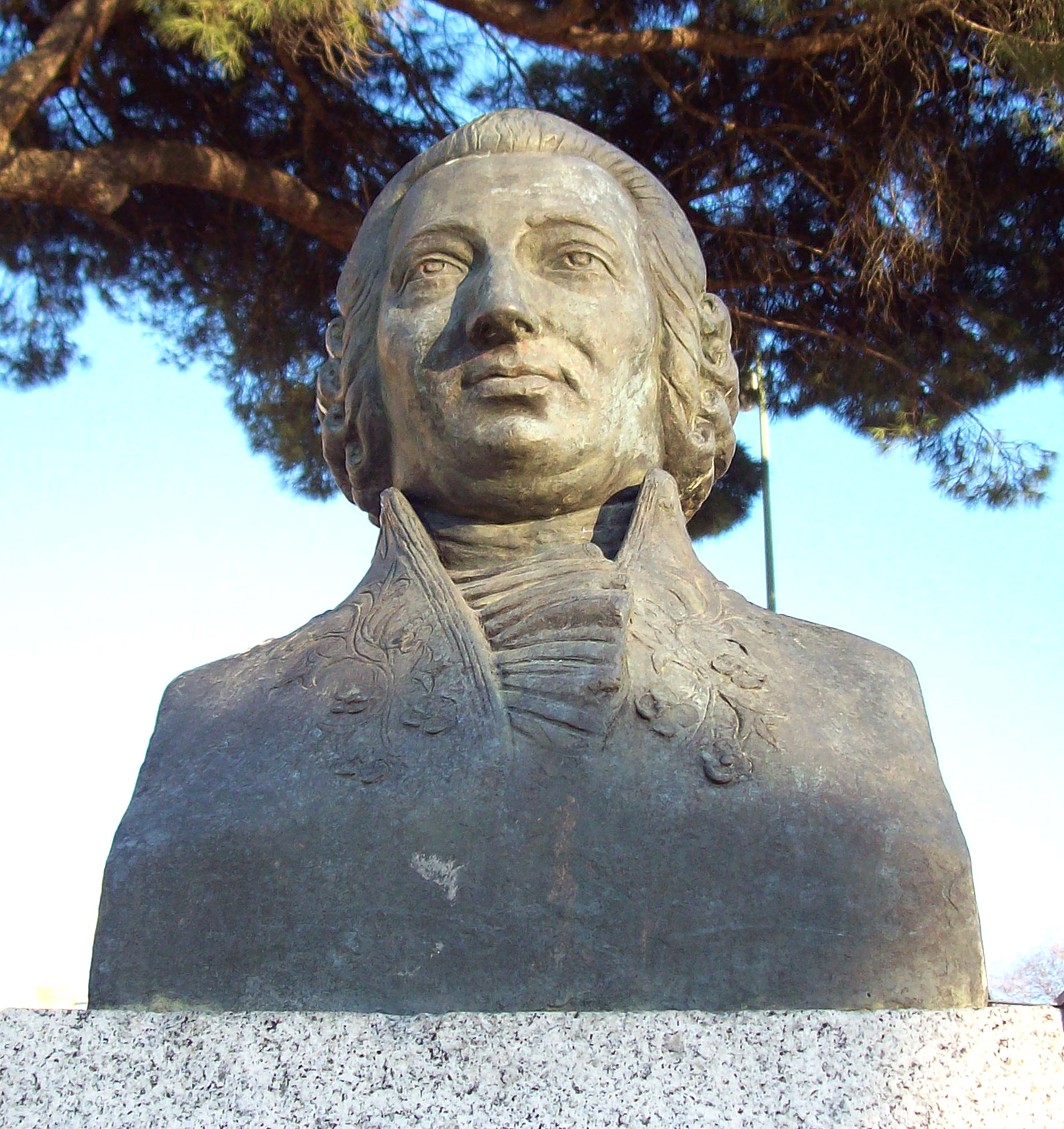 Partial view of a monument to Luigi Boccherini (1743–1805).